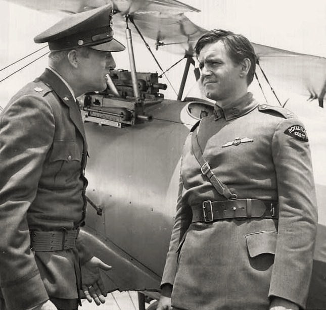 Simon Scott & Kenneth Haigh in the TV series The Twilight Zone, episode The Last Flight - publicity still (cropped)